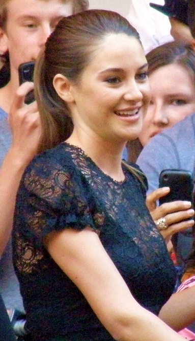 Shailene Woodley at the Toronto International Film Festival 2011.